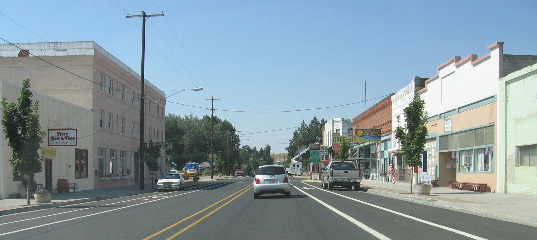 The main street of Moro, Oregon. Taken while driving down US 97.